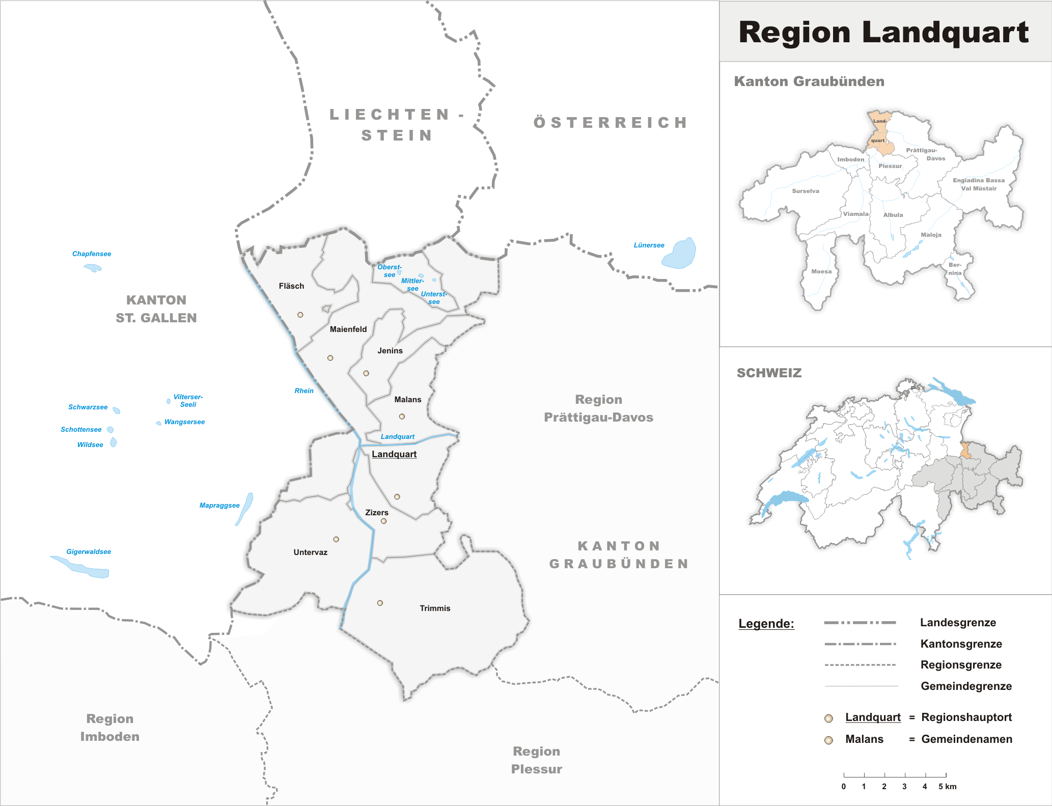 Municipalities in the district of Landquart